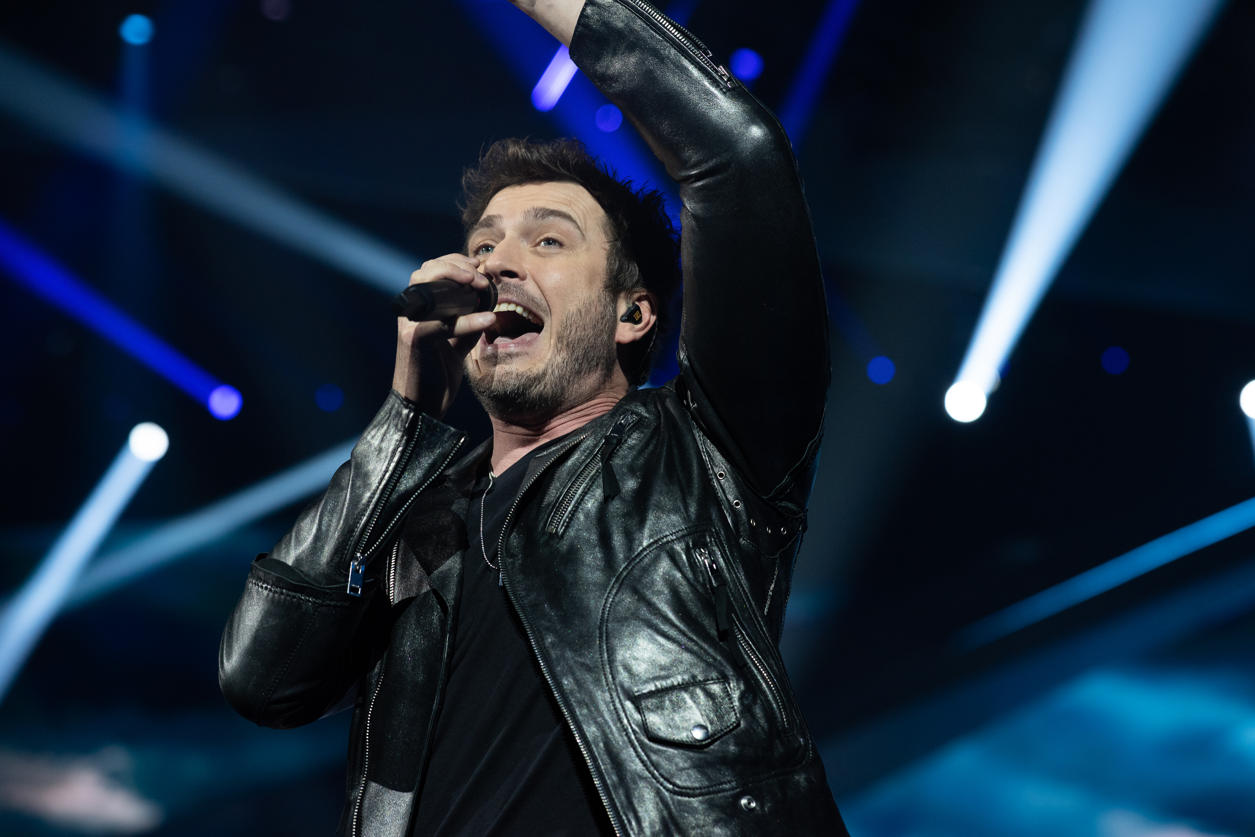 At the 2019 Eurovision Song Contest Semi-final 1 dress rehearsal